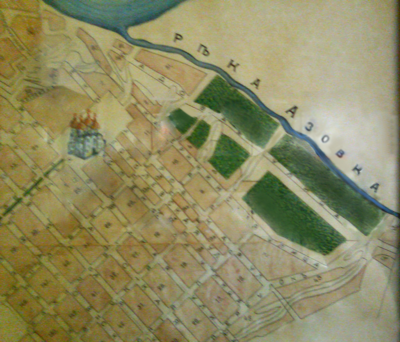 Map of Azovka River.